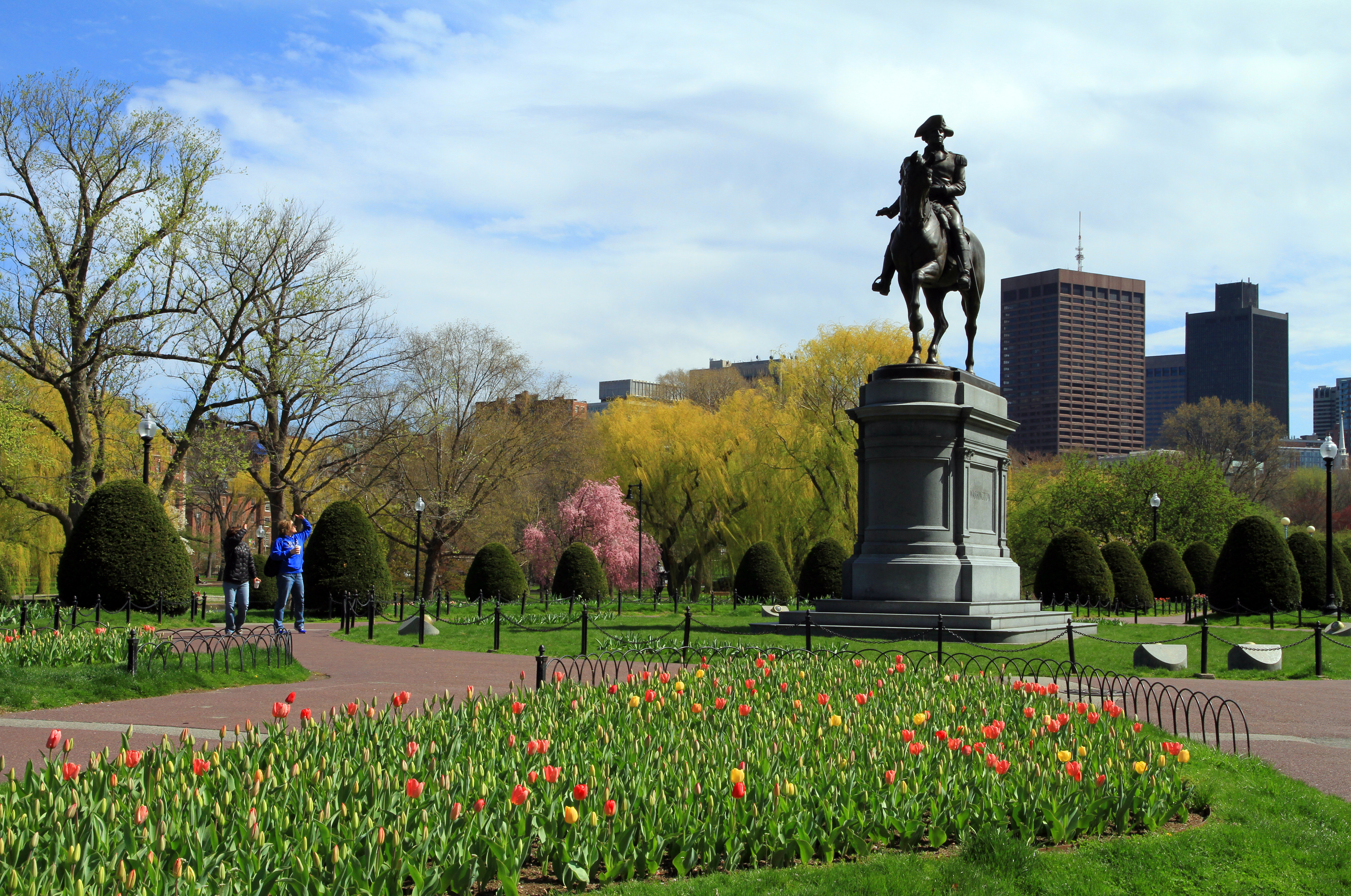 Statue of George Washington